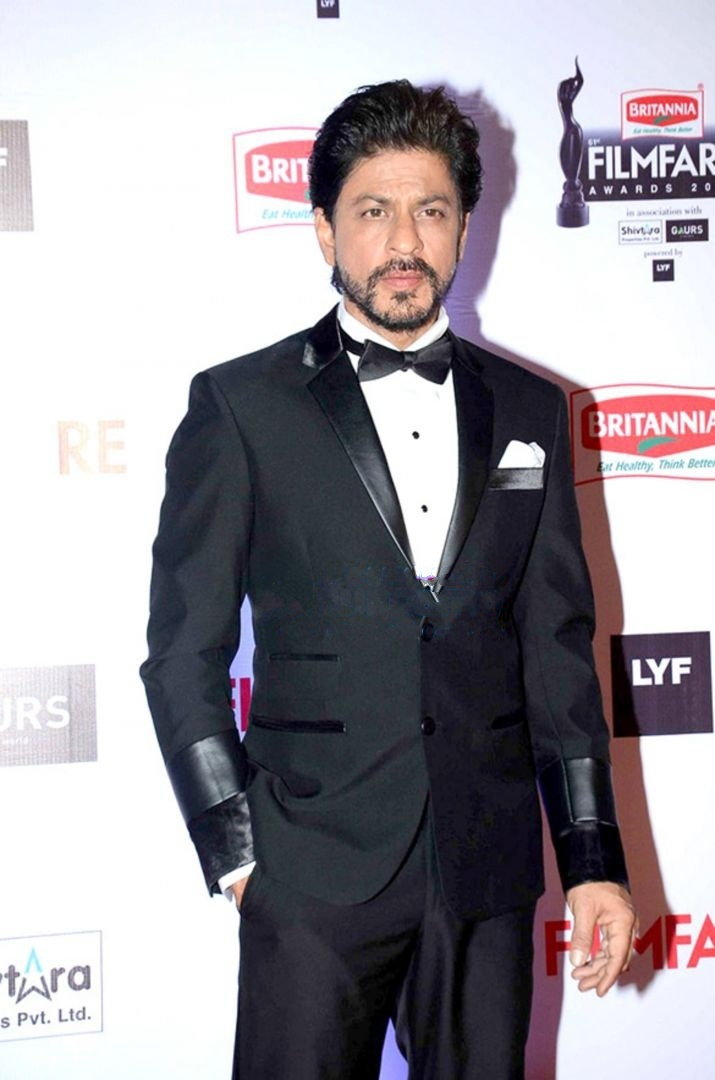 Srk at filmfare